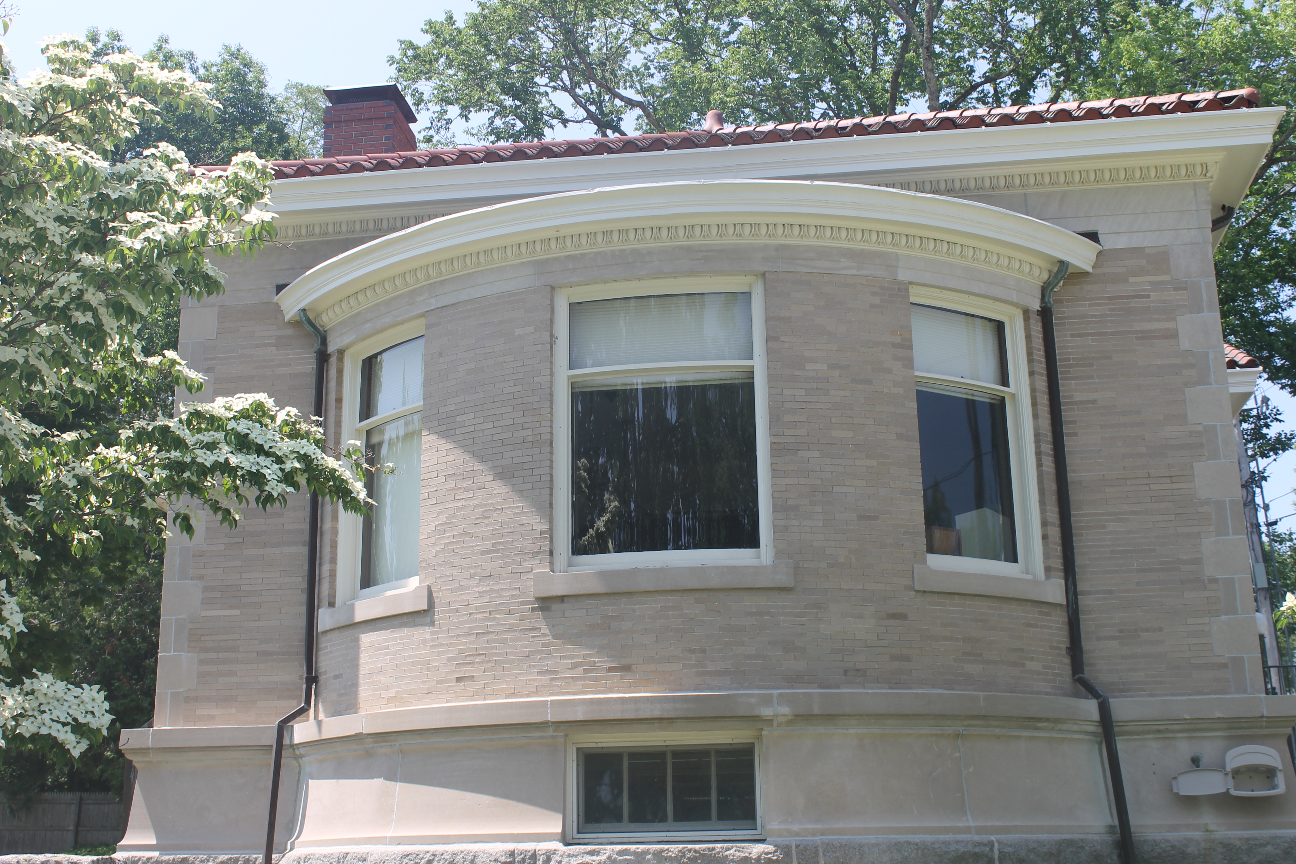 I took photo of Witherle Memorial Library in Castine, ME, with Canon camera.